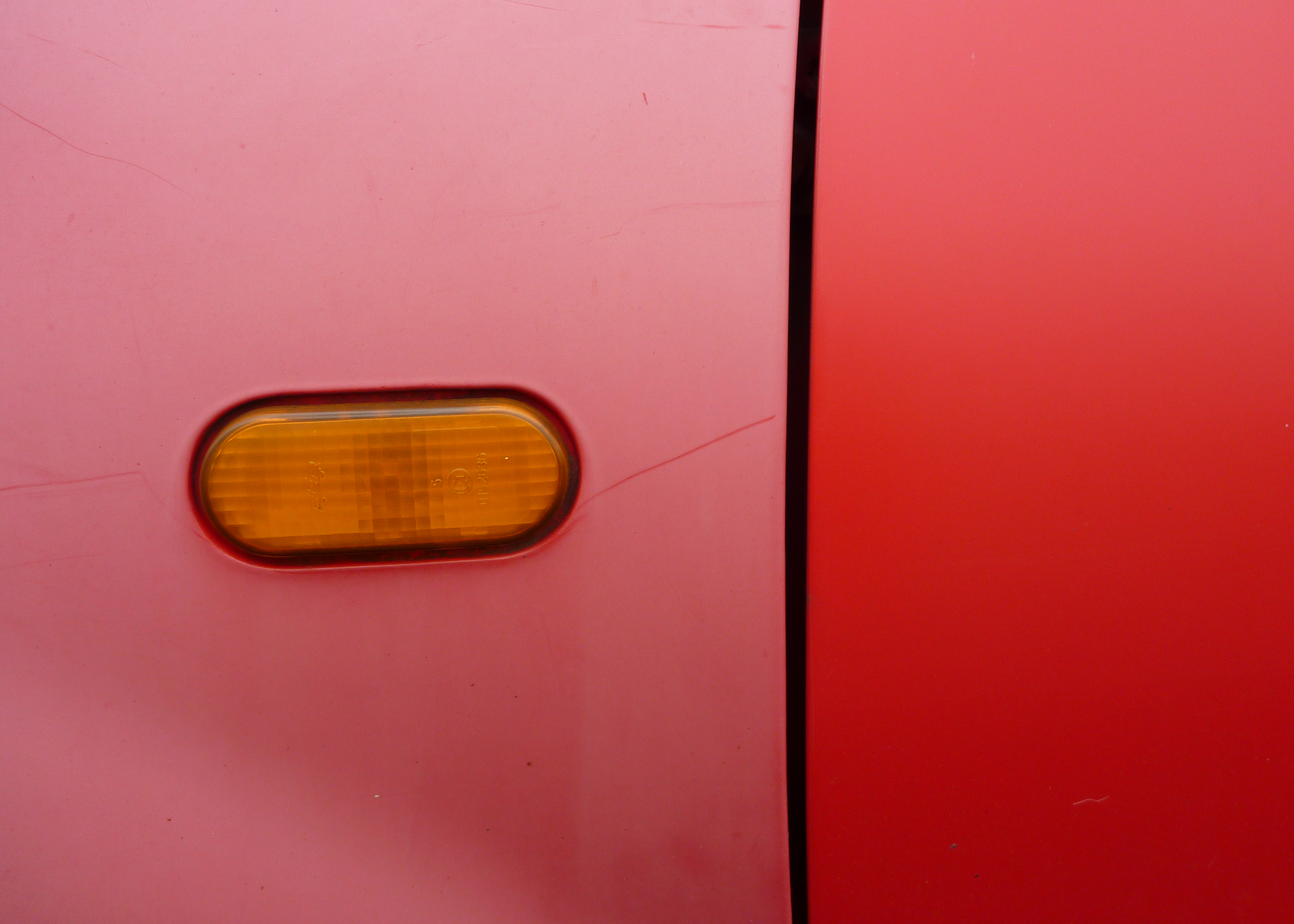 Chalking observed at a Volkswagen Polo III. Only the car wing is chalked, but not the door.